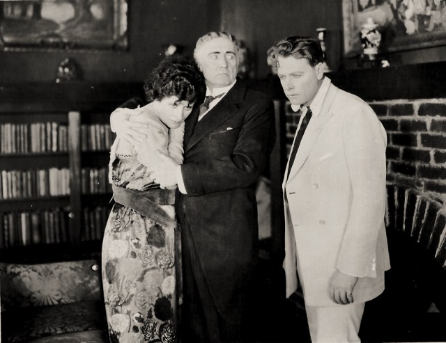 L. to R. : Kitty Gordon, unknown (not Lawson Butt) & Mahlon Hamilton in Playthings of Passion - publicity still